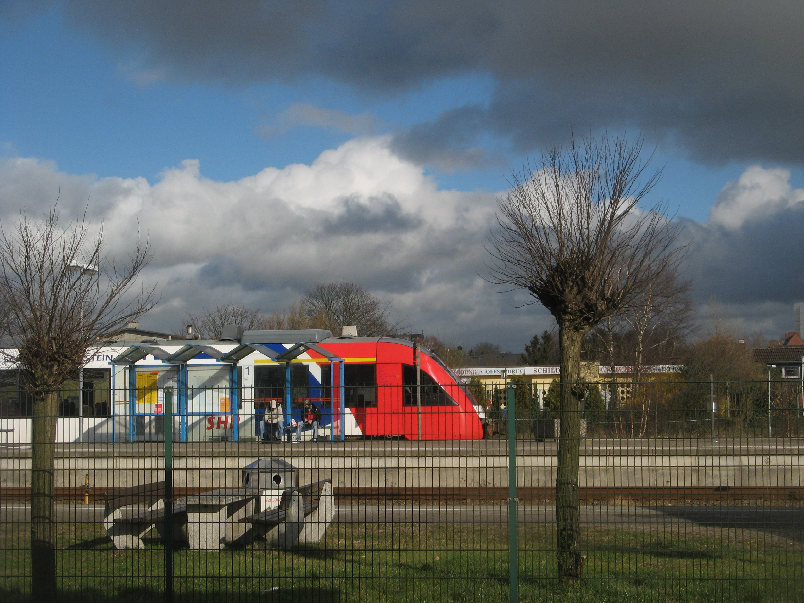 Train of the Schleswig-Holstein-Bahn at the train station, Heide, Holstein, Germany